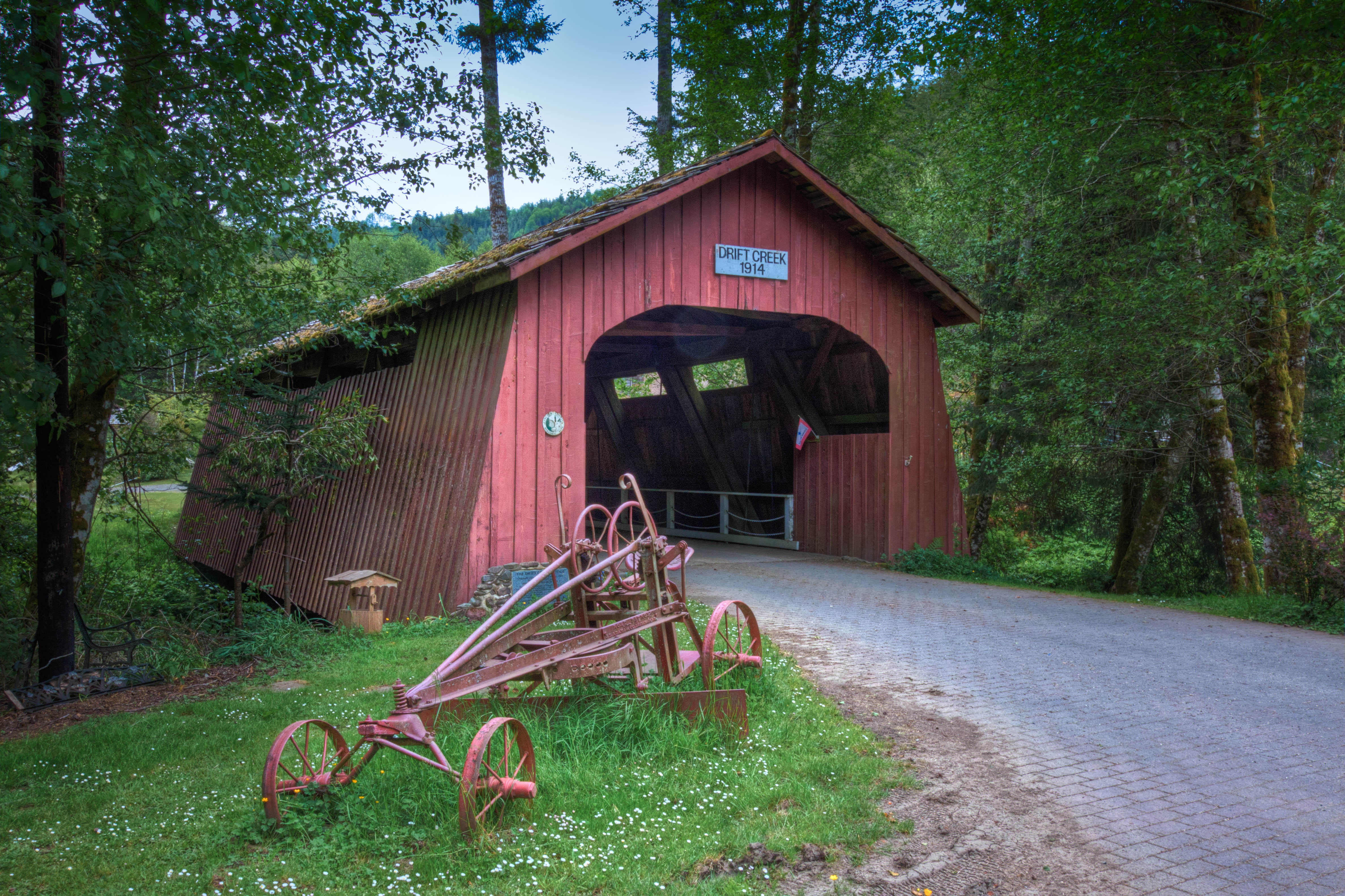 The Drift Creek Bridge has a long history. Originally built south of Lincoln City only 1.5 miles from the coast, the bridge was considered the oldest remaining covered bridge in Oregon. The span once served traffic on a main north-south route along the Oregon coast. New roads and highways were built later, thus diverting most of the traffic from the now remote site. When the bridge was built in 1914, the community surrounding the bridge site was known as Lutgens, and in 1917, the name was changed to Nice. In all, at least eight name changes occurred in this community prior to the closing of the post office in 1919. After the bridge was bypassed with a concrete span in the mid-1960s, Lincoln County passed an ordinance preserving the wooden structure as an historical memorial to the Lincoln County pioneers. However, in early 1988, Lincoln County officials had to close the Drift Creek Bridge to pedestrian traffic due to the deteriorating condition of the span. Excessive rot and insect damage had weakened the bridge to a dangerous level. Steel beams were installed inside the bridge to keep it from falling into the water. The area around the bridge was excavated in an effort to isolate the structure and limit access. This bridge was dismantled in late 1997. The County gave the timbers to the Sweitz family who owned land only eight miles to the north of the original site. Laura and Kerry Sweitz had envisioned the house being rebuilt over their concrete bridge that provides access to their property across Bear Creek. In the pioneer spirit that this bridge represents and through hardship and strife, their monumental efforts resulted in the resurrection of the bridge which now stands in a small, beautiful park-like setting. The Sweitz family has given the public easement for heritage purposes for all time.